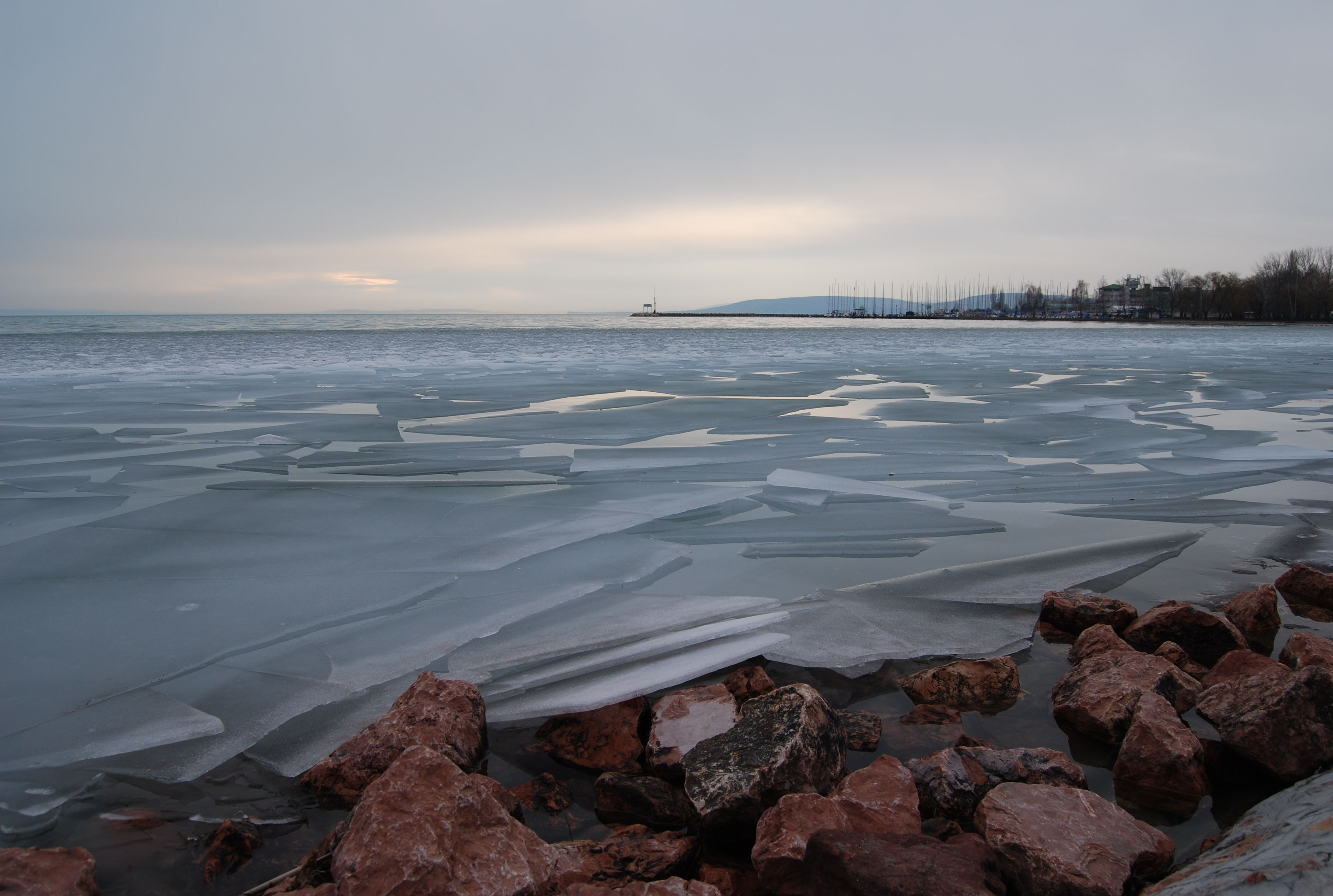 Frozen Balaton lake, Hungary